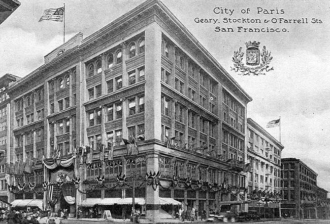 The City of Paris store in 1909 — Union Square, San Francisco. Present day Nieman Marcus department store.